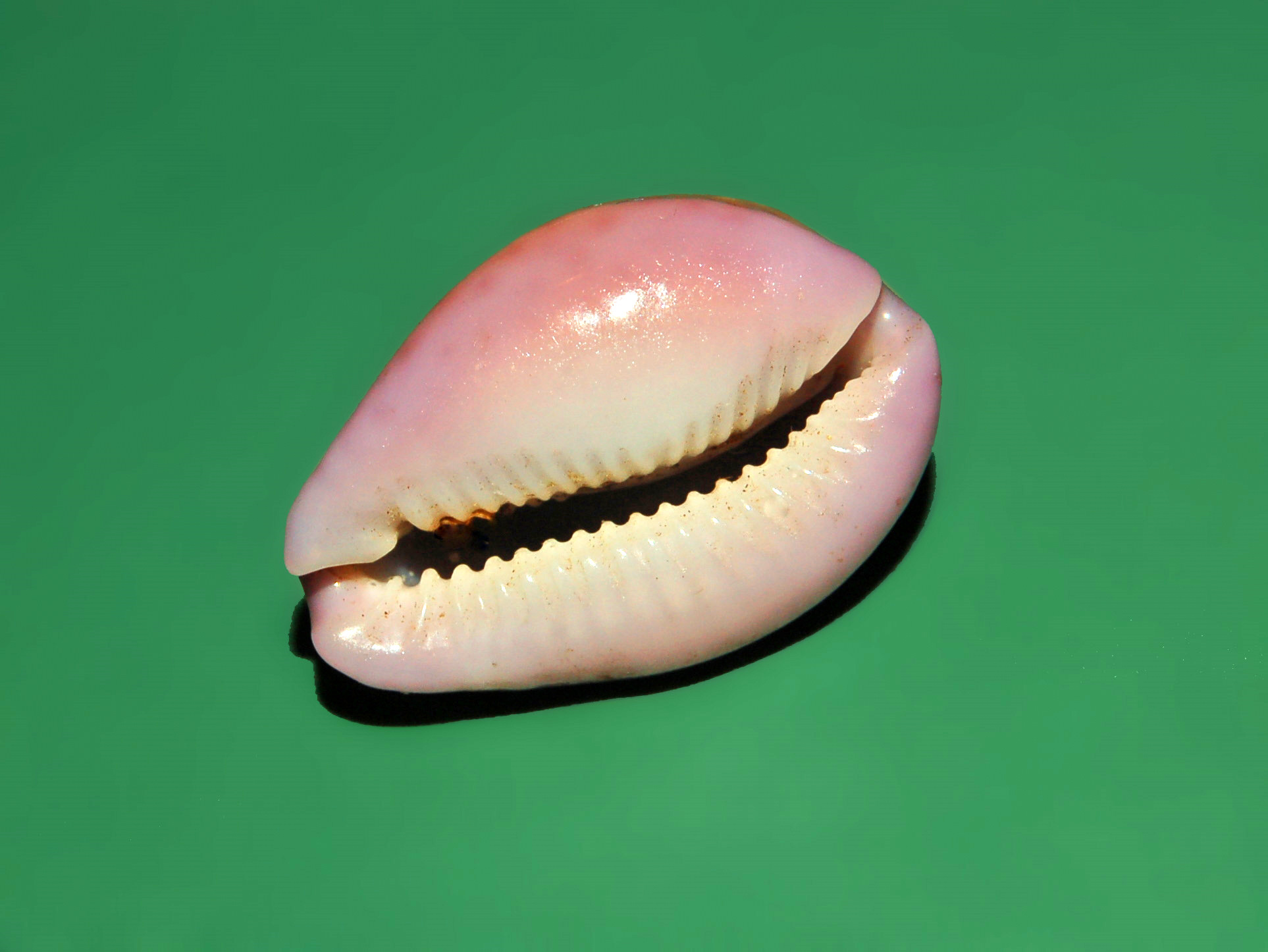 Naria poraria